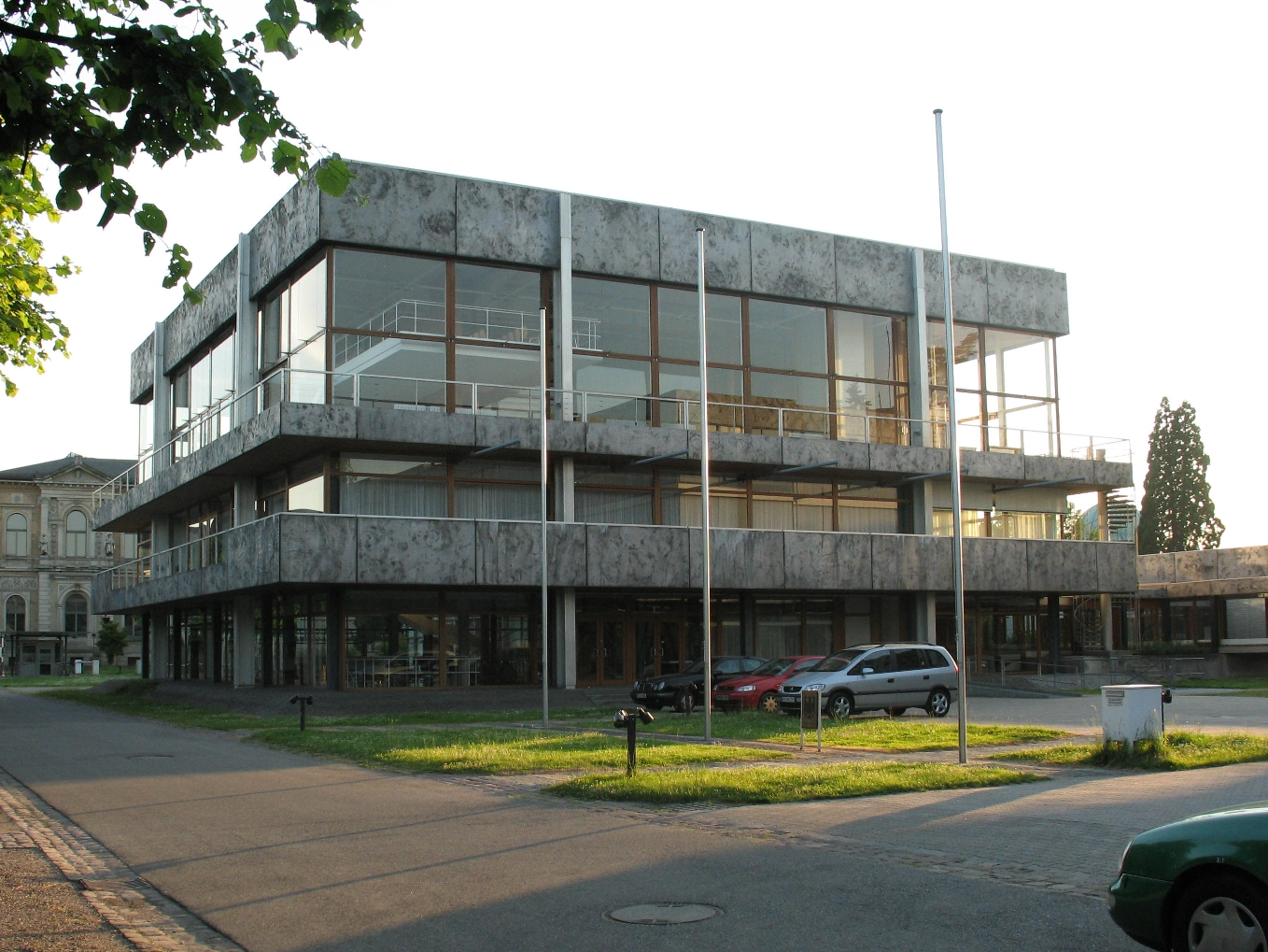 Federal Constitutional Court in Karlsruhe, Germany, by architect Paul Baumgarten. Modern movement. Photographed by me in June 2005 GFDL